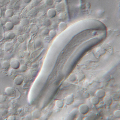 J Scott, personal photo, Hulle cell and conidia of Aspergillus ustus group (probably A. puniceus), grown on Modified Leonian's agar and photographed in Nomarski Differential Interference Contrast microscopy